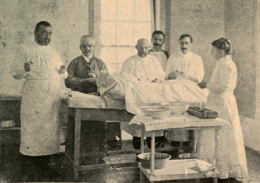 Fred Shepard - Physician and witness to the Armenian Genocide.